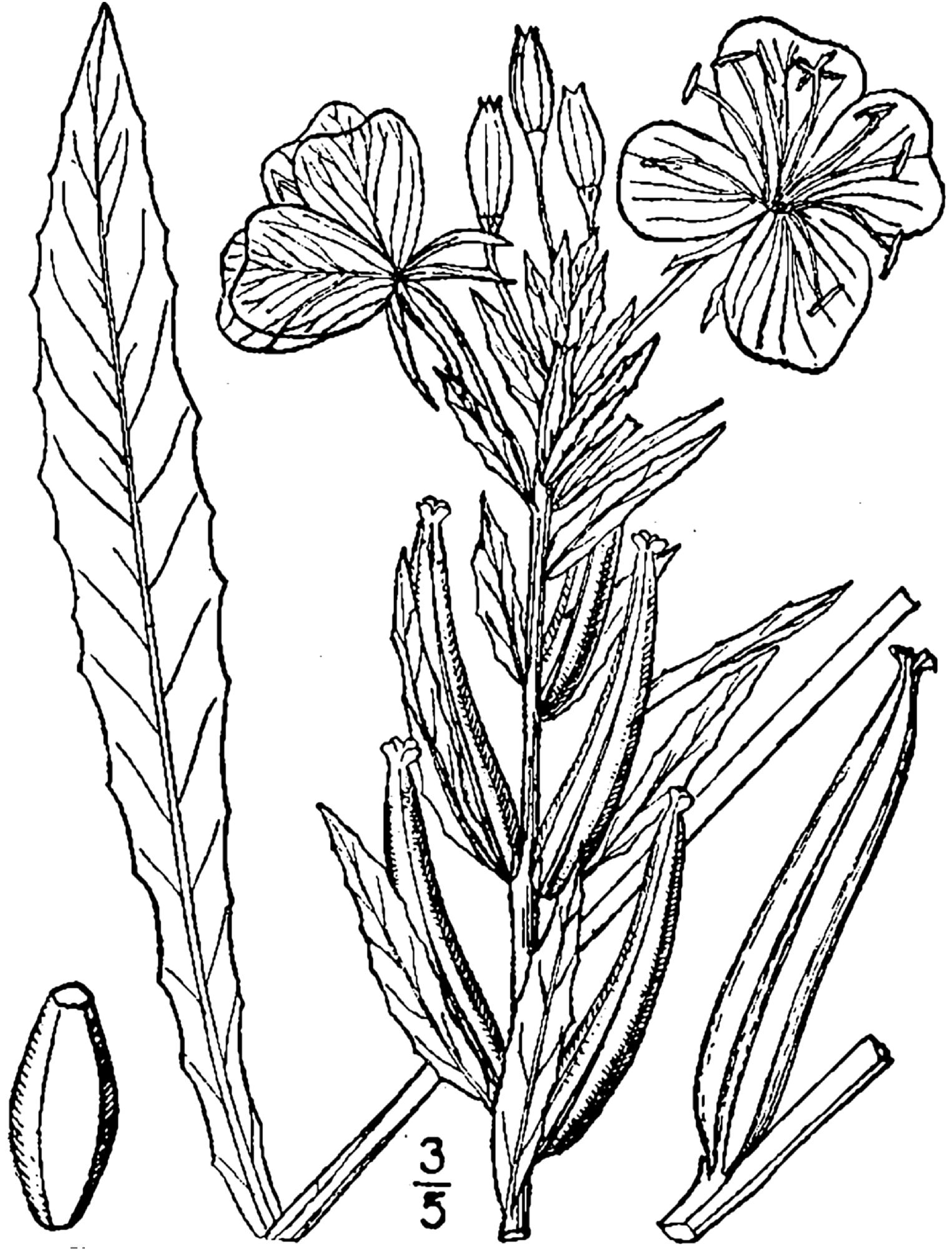 Oenothera oakesiana